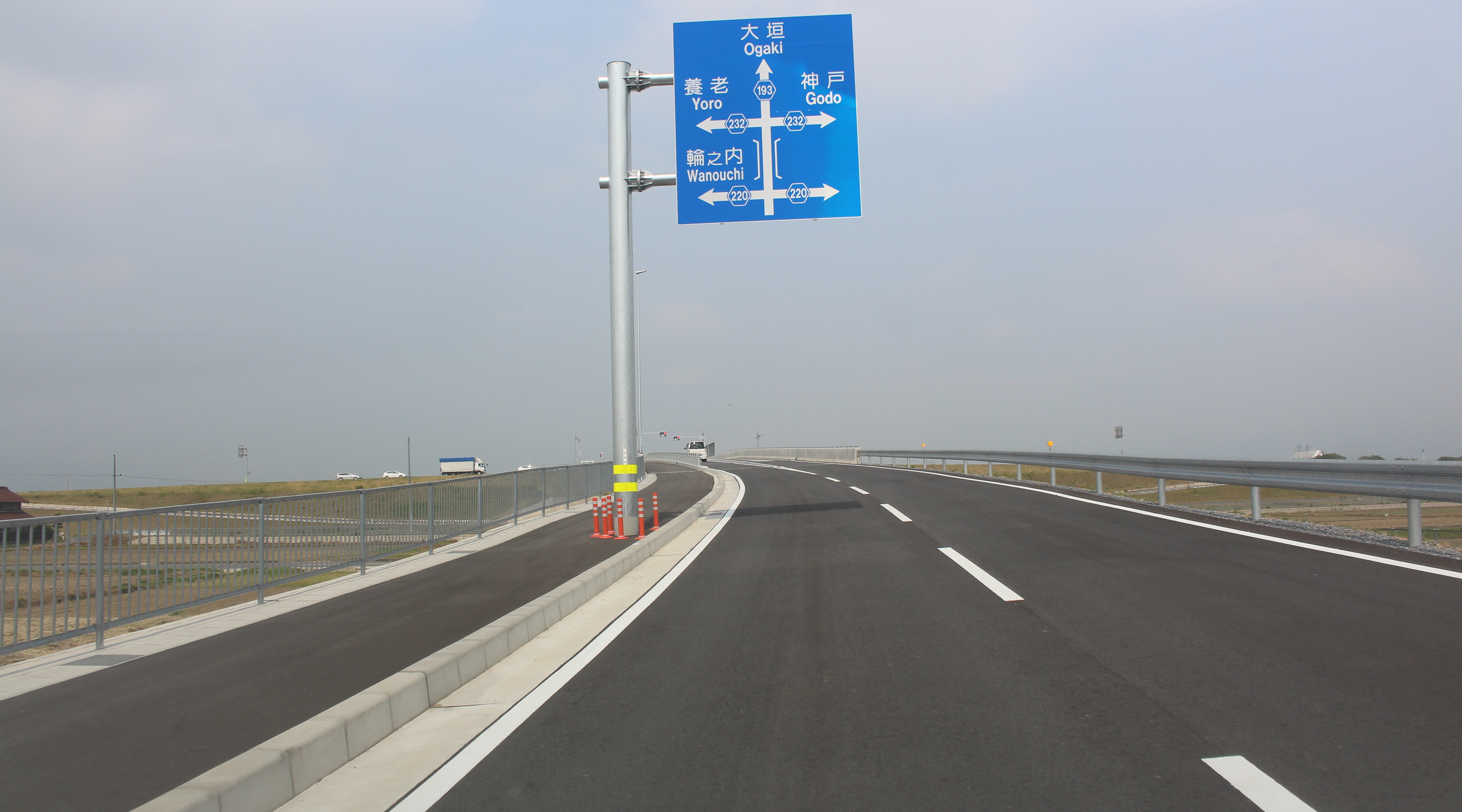 Daian Bridge east over Ibi River in Gifu prefecture, Japan.